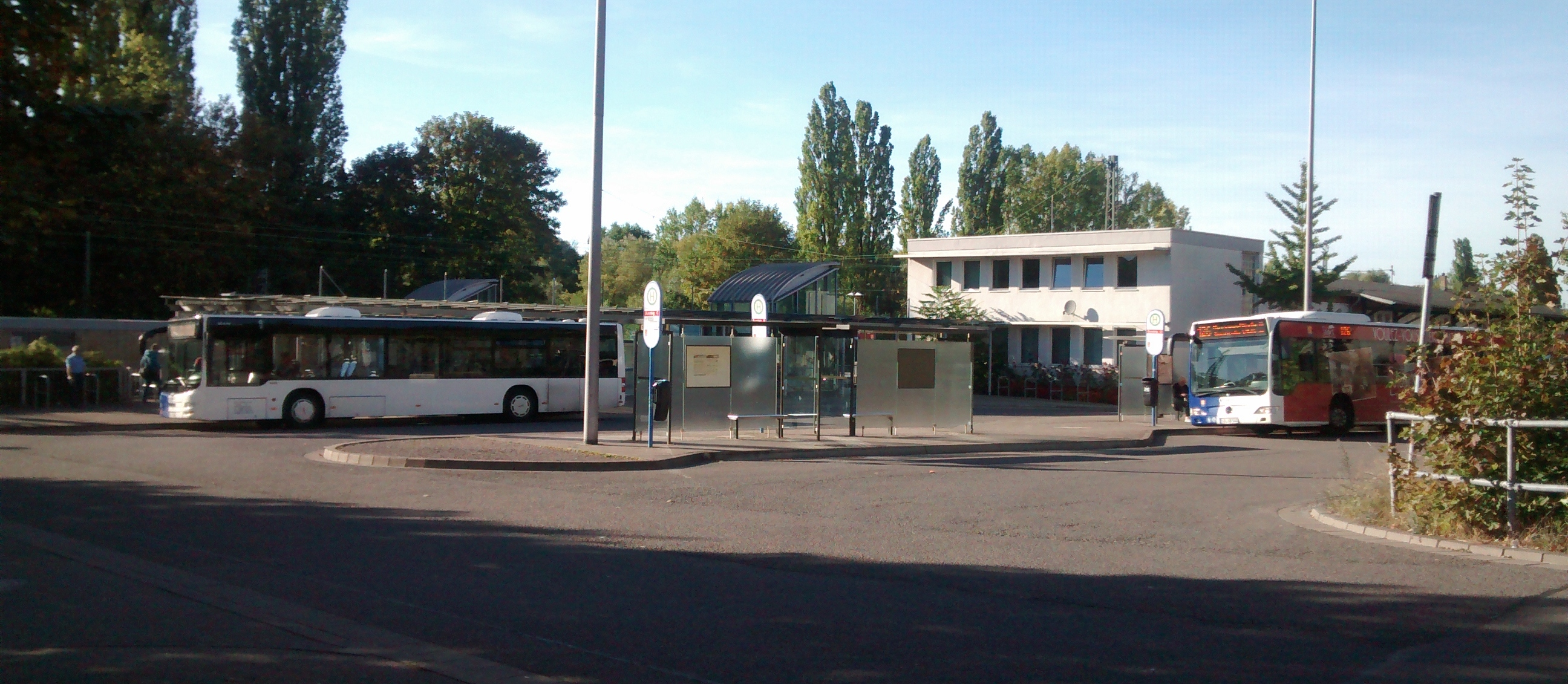 Bus terminal at Brebach railway station